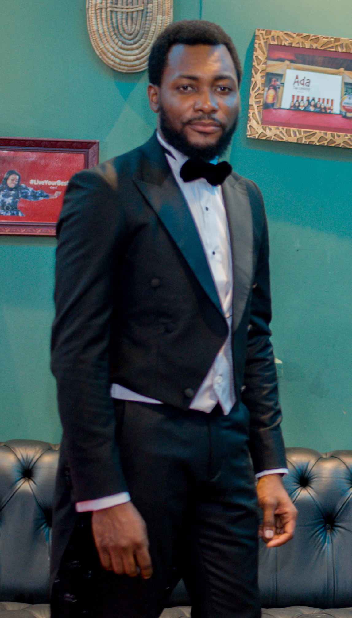 Pictures from AMVCA 2020